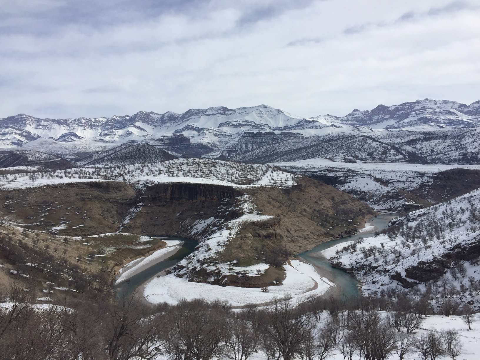 View of the Bazoft river in the Chaharmahal and Bakhtiari Province, Iran, with the Zagros mountains in background